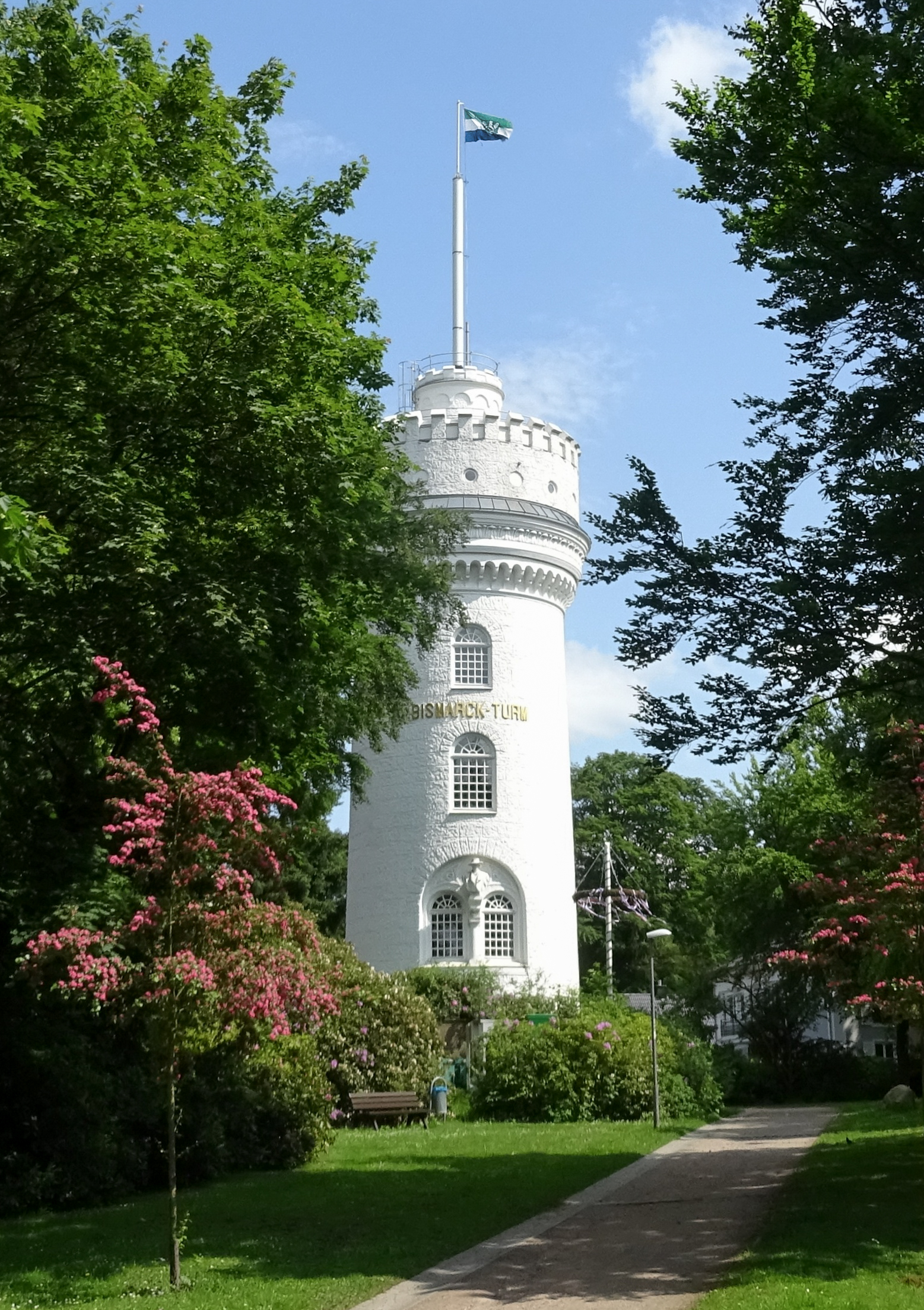 Bismarcktower in Aumühle after the renovation